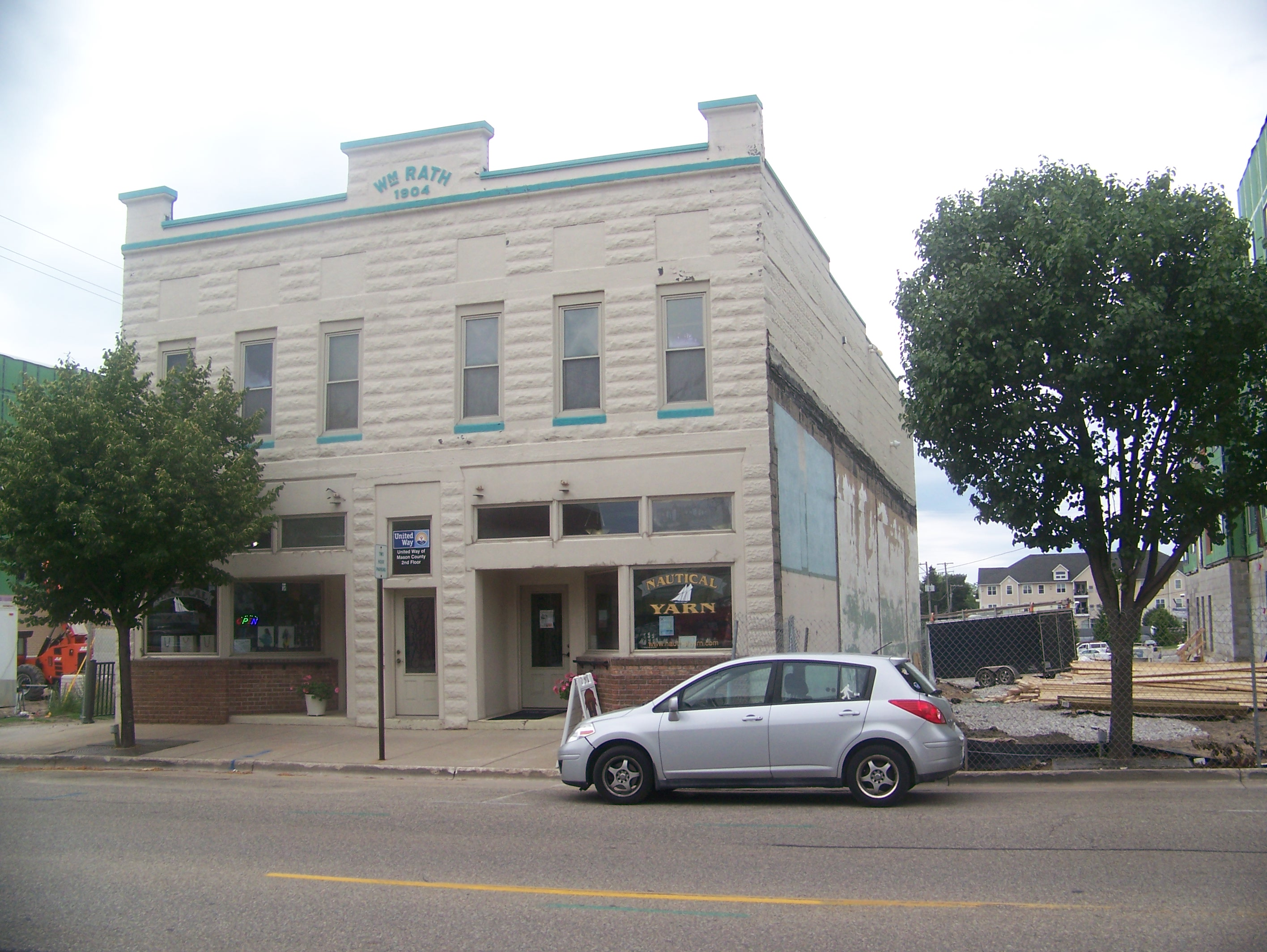 108 S. Rath avenue in downtown Ludington, Michigan. Historic building built by William Rath in 1904.